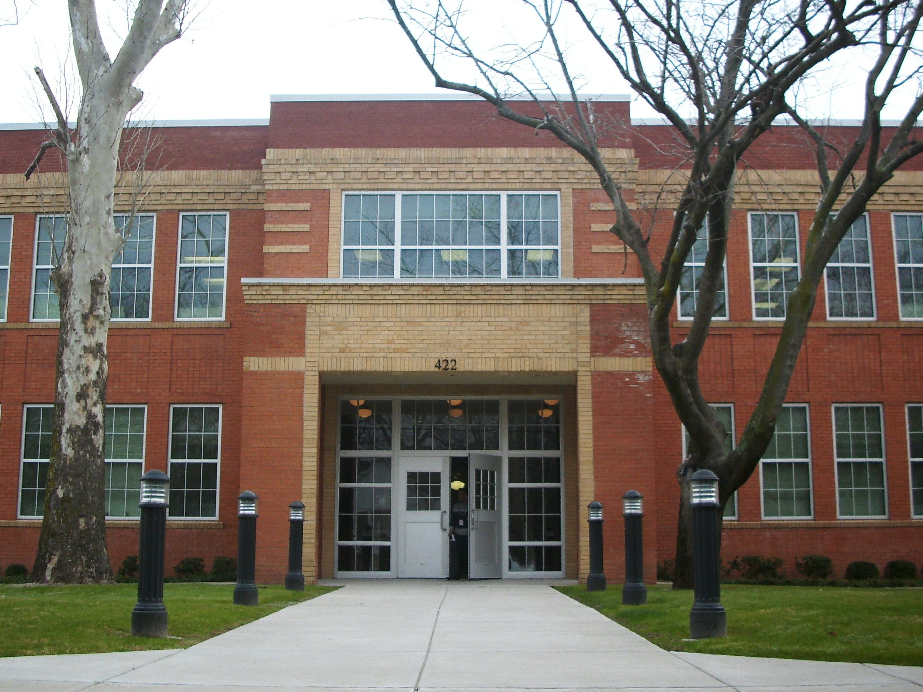 The Lancaster Independent School District administration building on 422 South Centre Avenue. The building served as the Lancaster High School campus from 1923 to 1965.